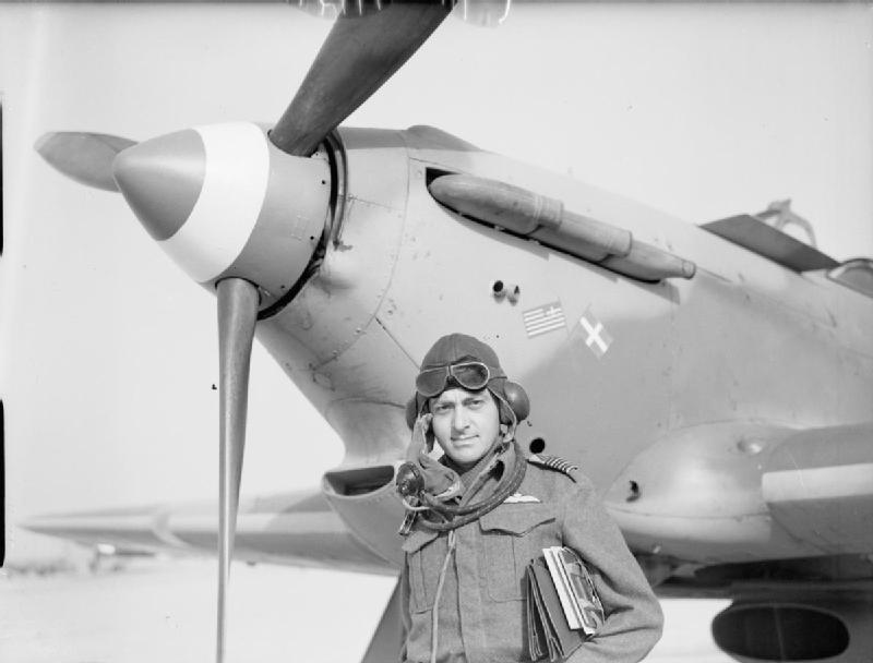 IWM caption : Major X F Varvaresos, Commanding Officer of No. 335 (Hellenic) Squadron RAF, standing in front of a Hawker Hurricane Mark I of the Squadron, embellished with the colours of the Royal Hellenic Air Force, at Aqir, Palestine.